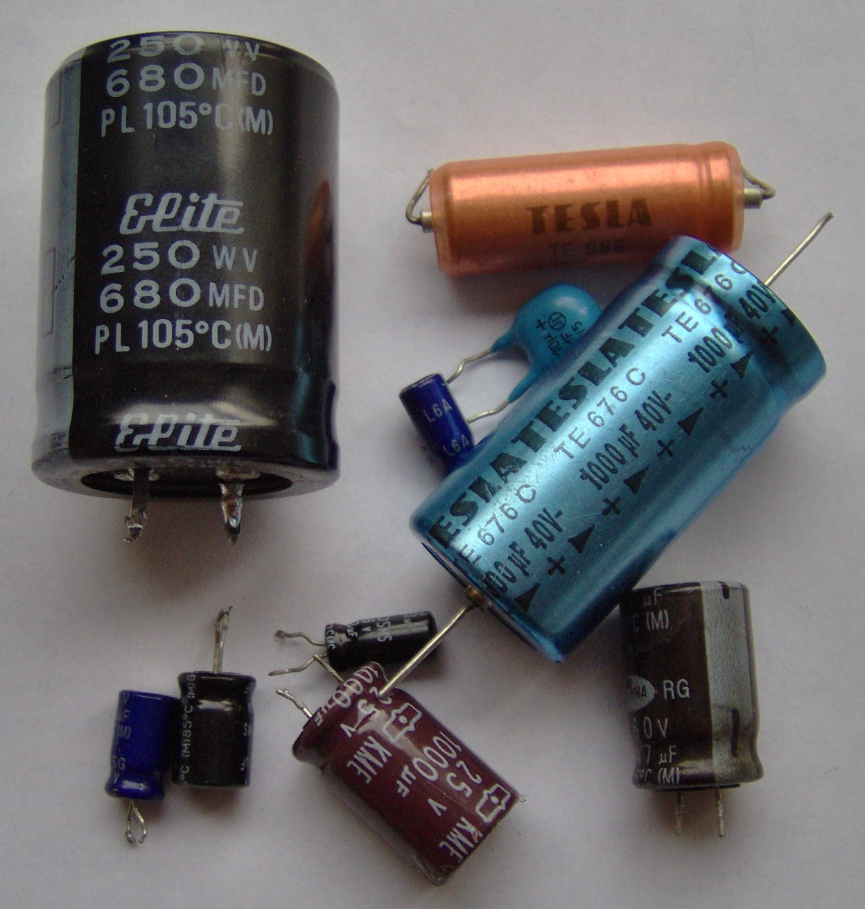 A selection of electrolytic capacitors.